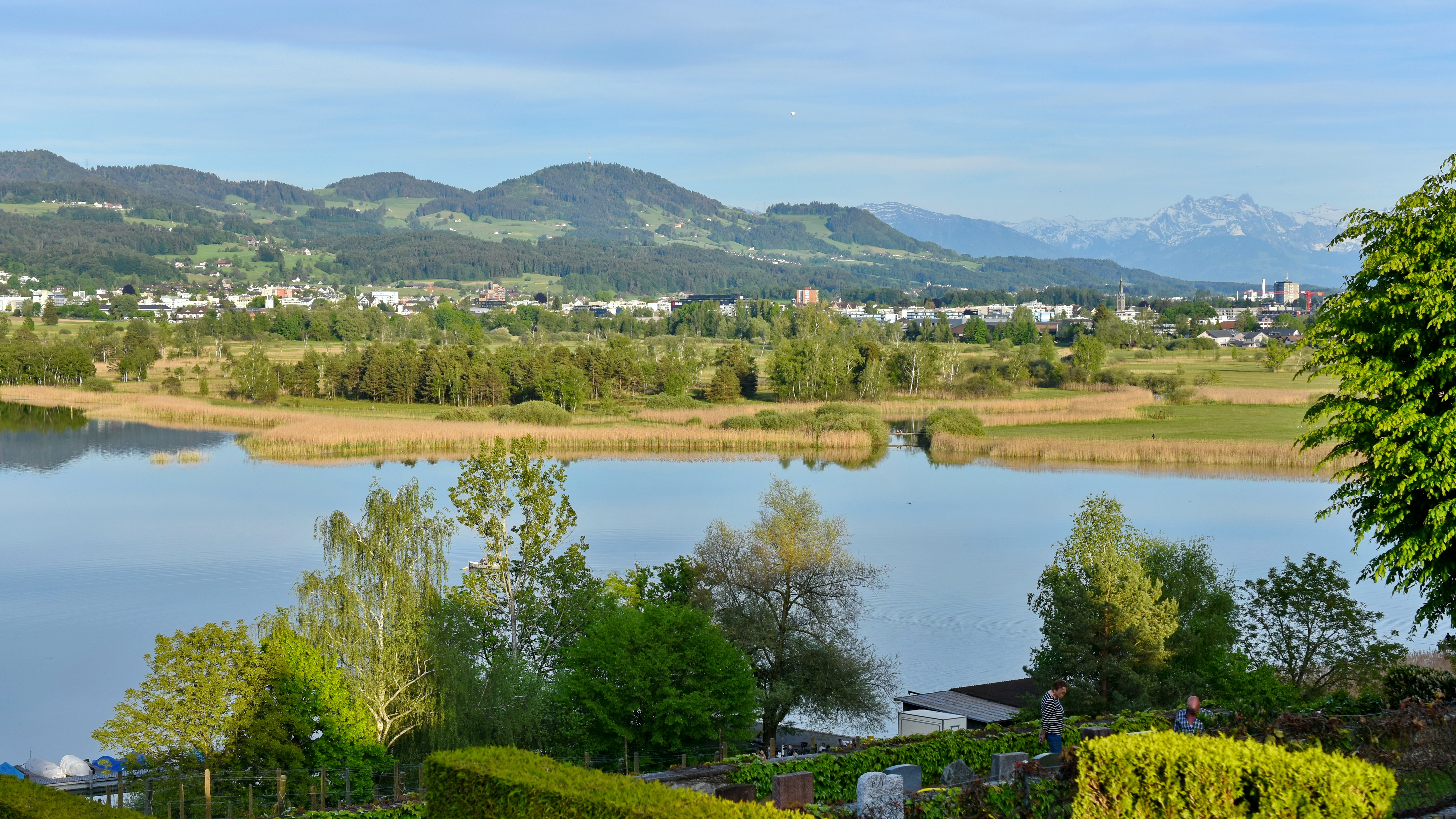 Robenhausener Ried alongside Pfäffikersee as seen from Jucker Farm in Seegräben (Switzerland)